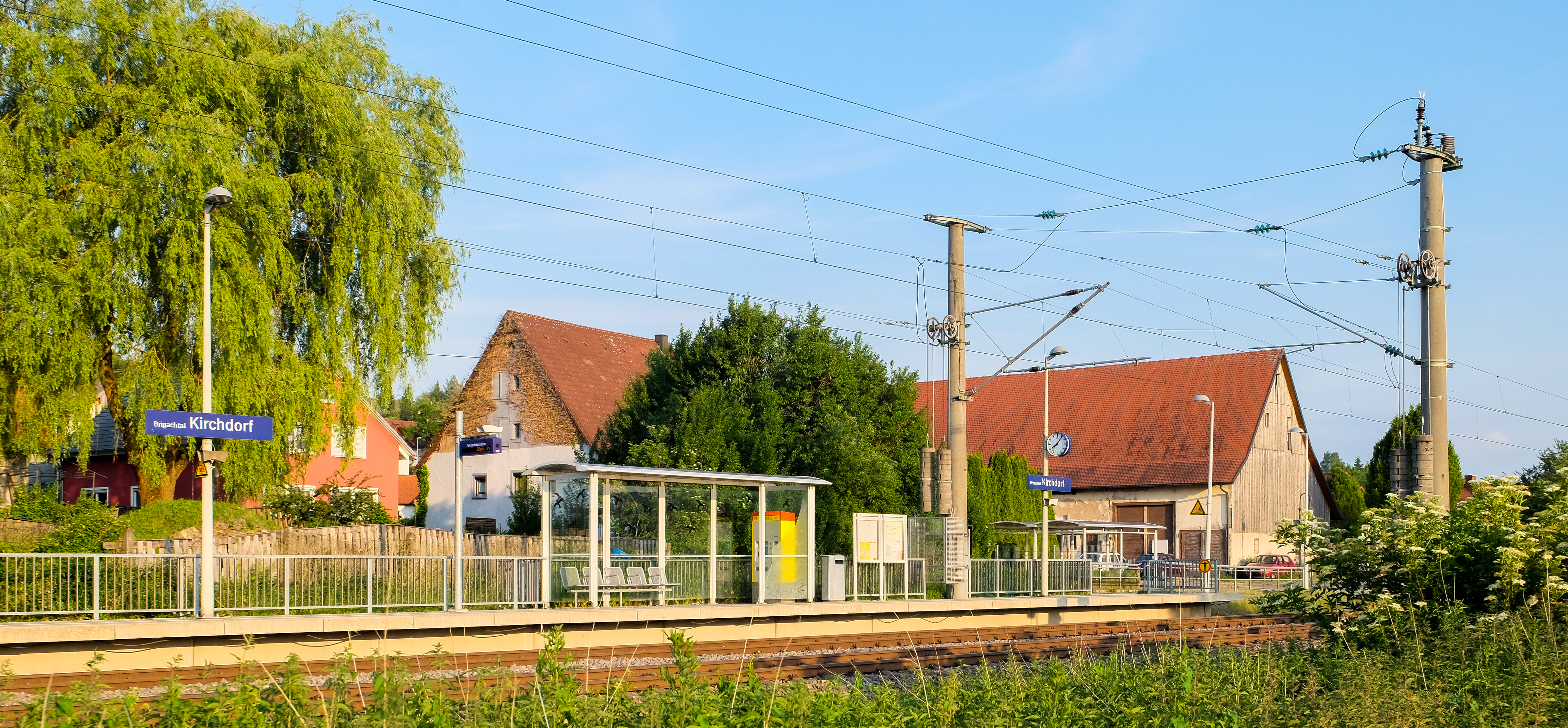 Railwaystation Brigachtal-Kirchdorf, district Schwarzwald-Baar-Kreis, Baden-Württemberg, Germany